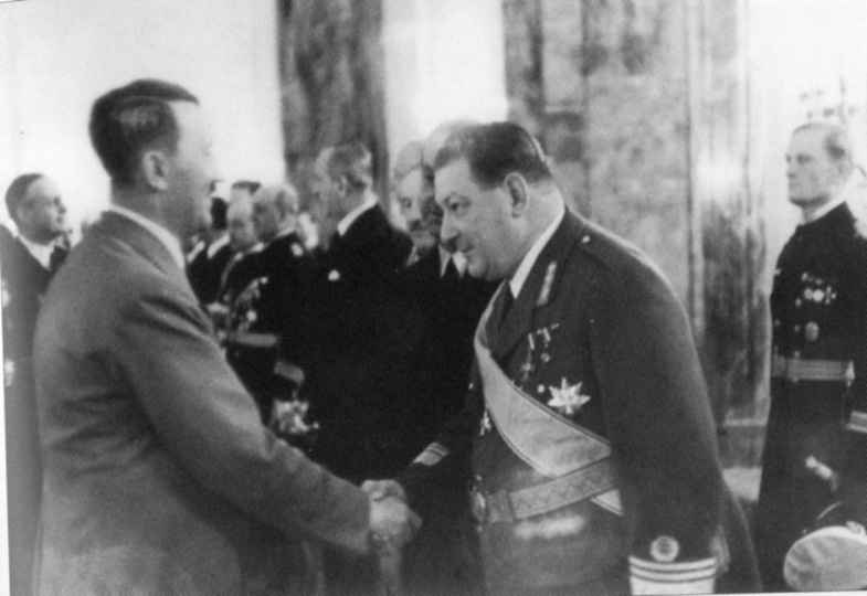 The Chief of the General Staff of Estonian Military Nikolai Reek participates in Adolf Hitler's jubilee celebration.